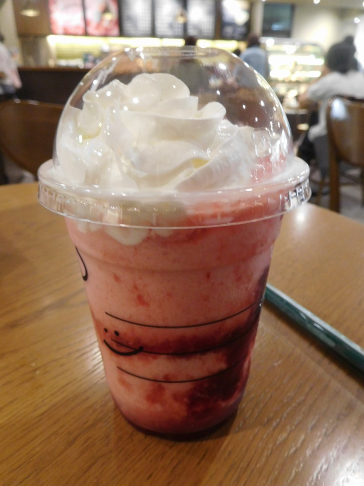 Strawberry Delight Frappuccino (Starbucks Japan)